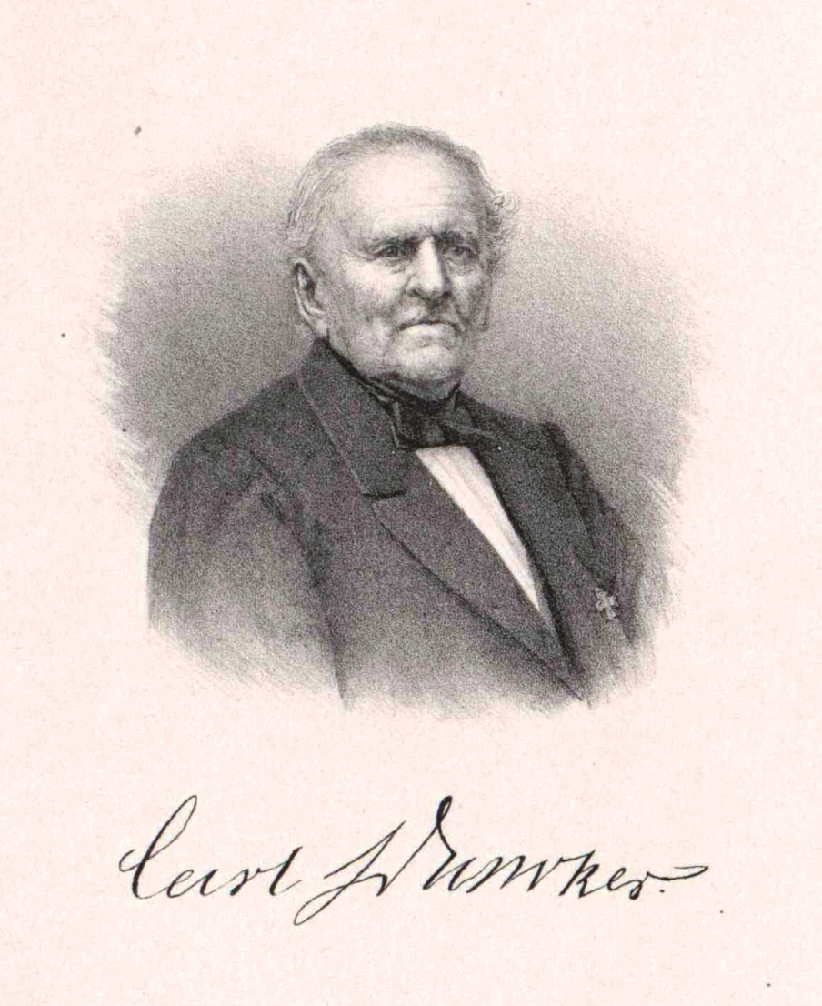 Carl Duncker (1781–1869)